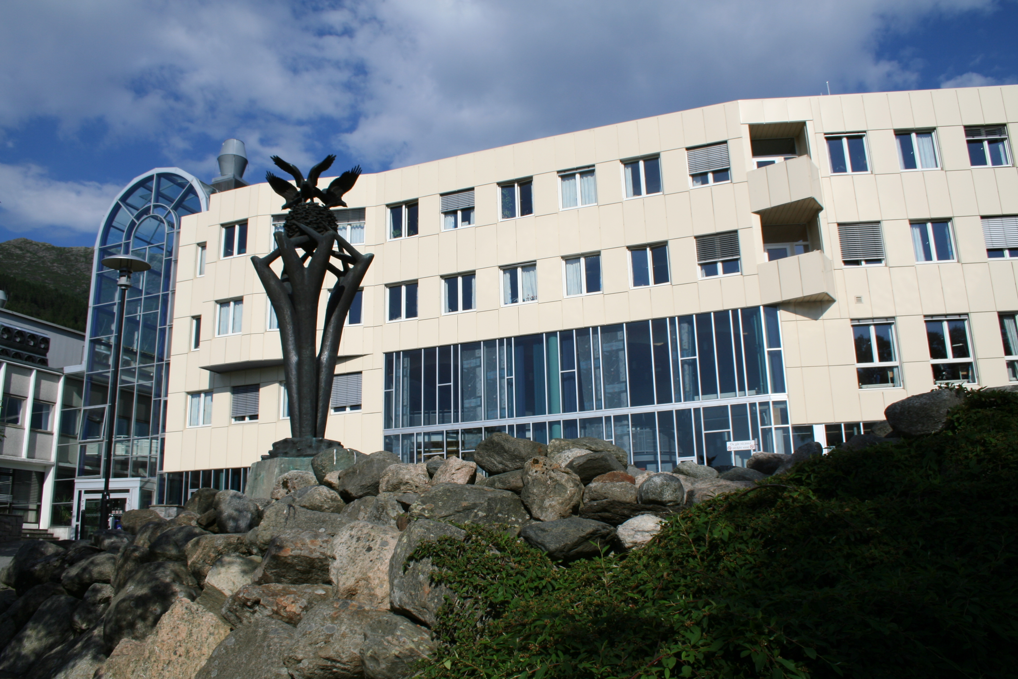 The Faculty of Education at Bergen University College